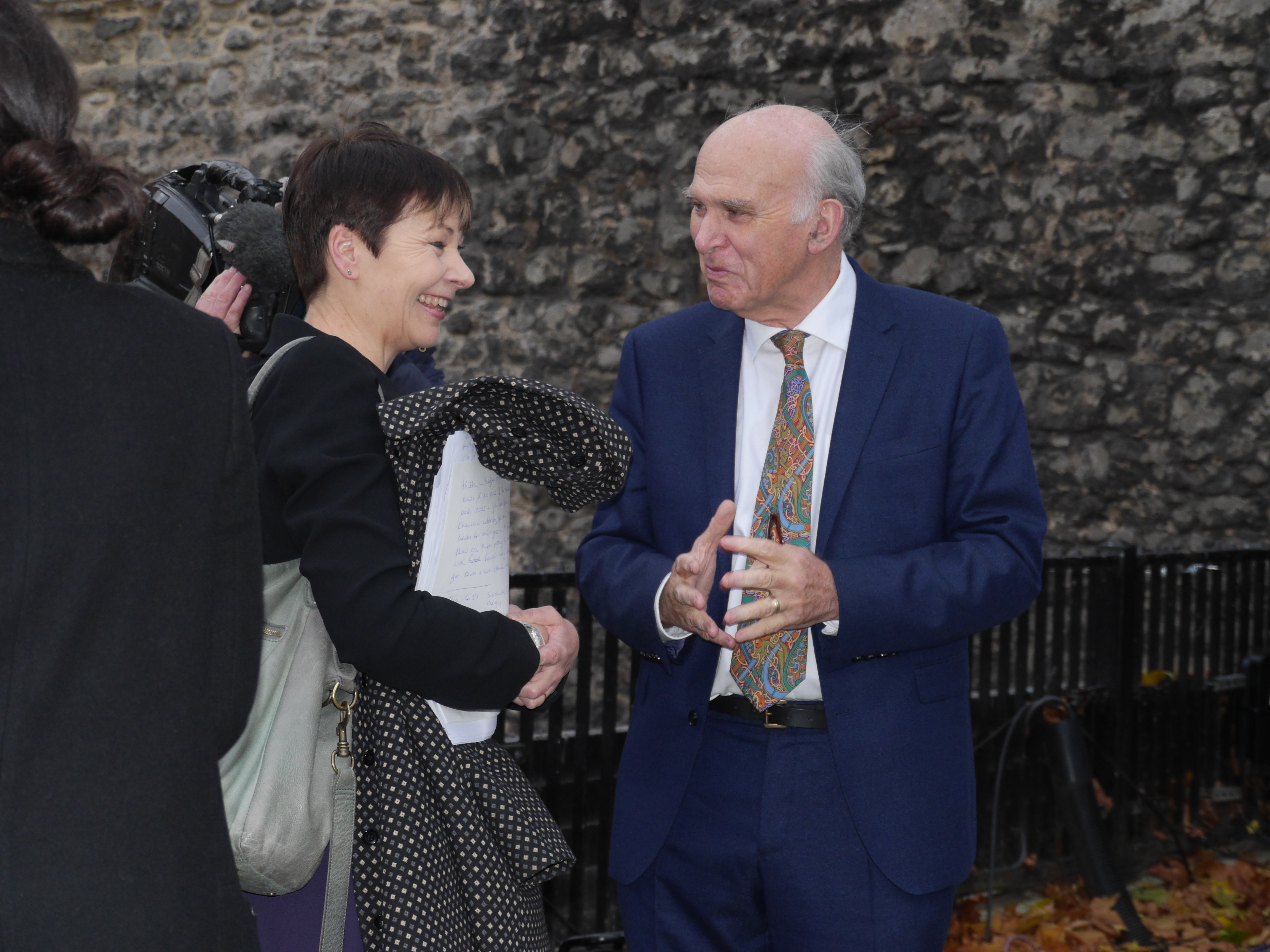 Caroline Lucas and Vice Cable sharing a joke. Picture taken by Shayan Barjesteh van Waalwijk van Doorn.